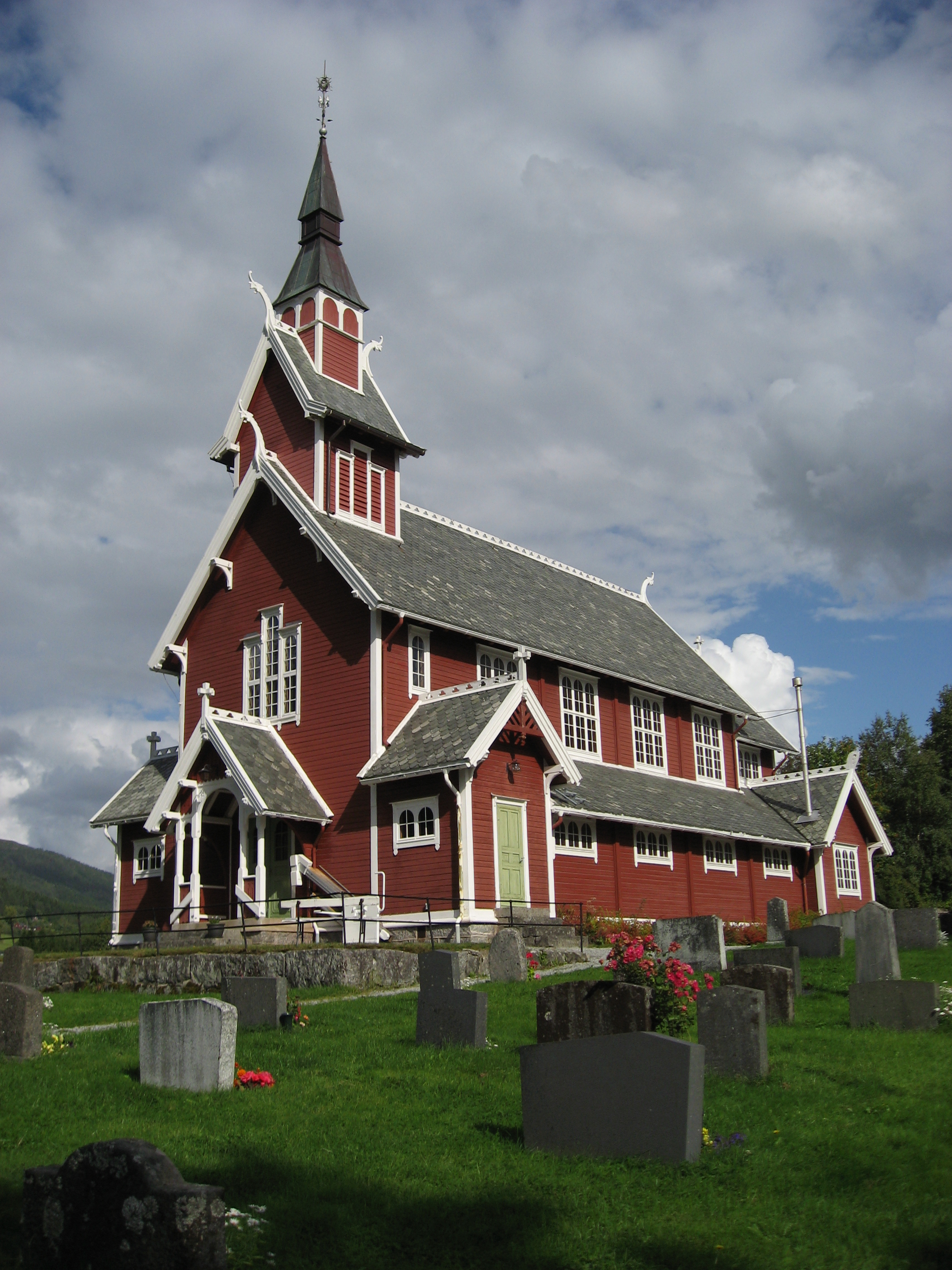 Veøy kirke at Sølsnes in Molde, Norway. Built in 1907.